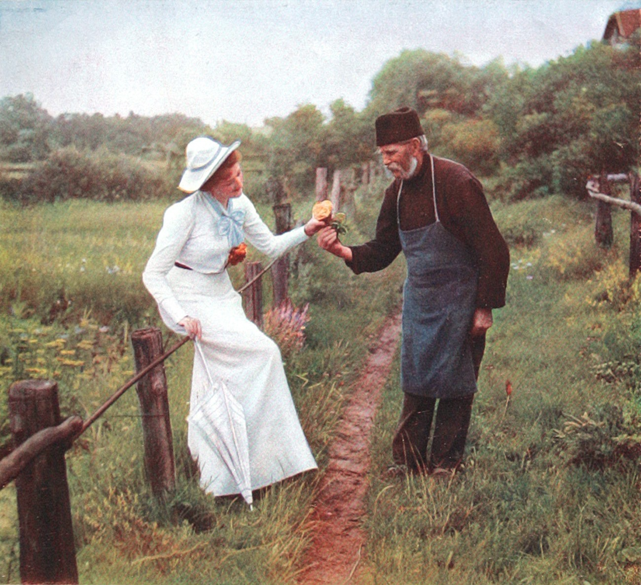 Early color photograph by Adolf Miethe, printed from three color-filtered black-and-white negatives made with a color camera designed by Miethe. The better-known early color photographs of Sergei Prokudin-Gorskii, Miethe's pupil, were made with the same type of camera. (Note: source of first version incorrectly attributed this image to Louis Ducos du Hauron)